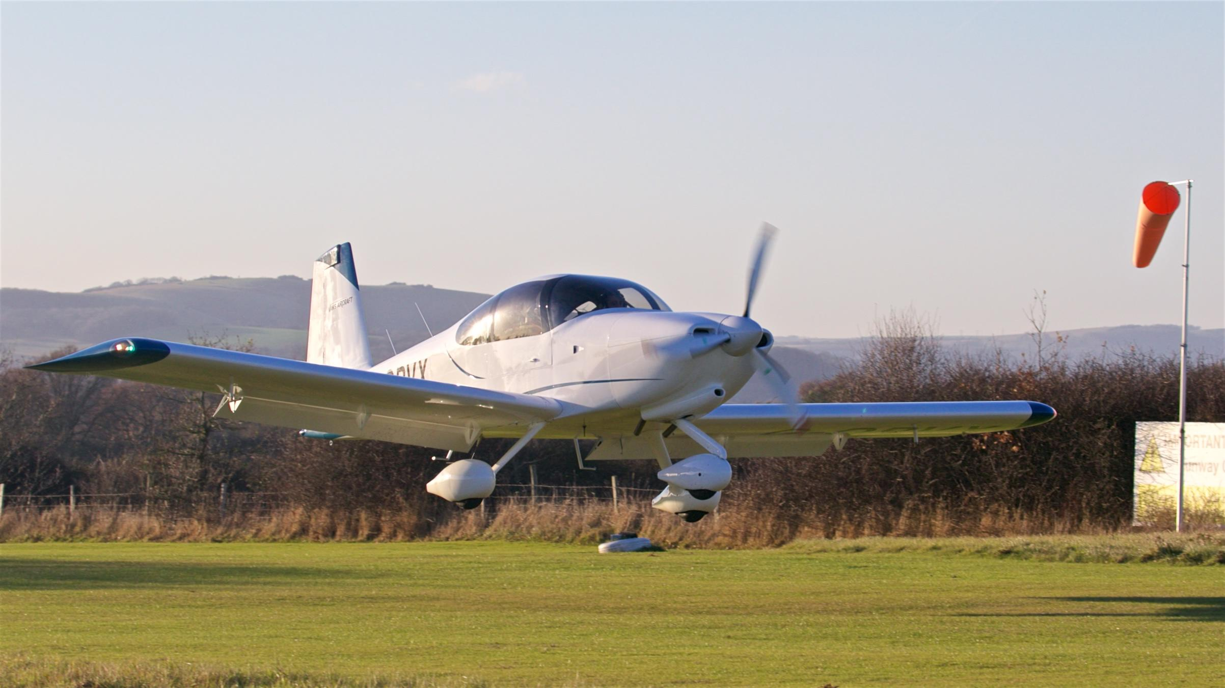 RV-10 Landing on a Grass Strip in the UK